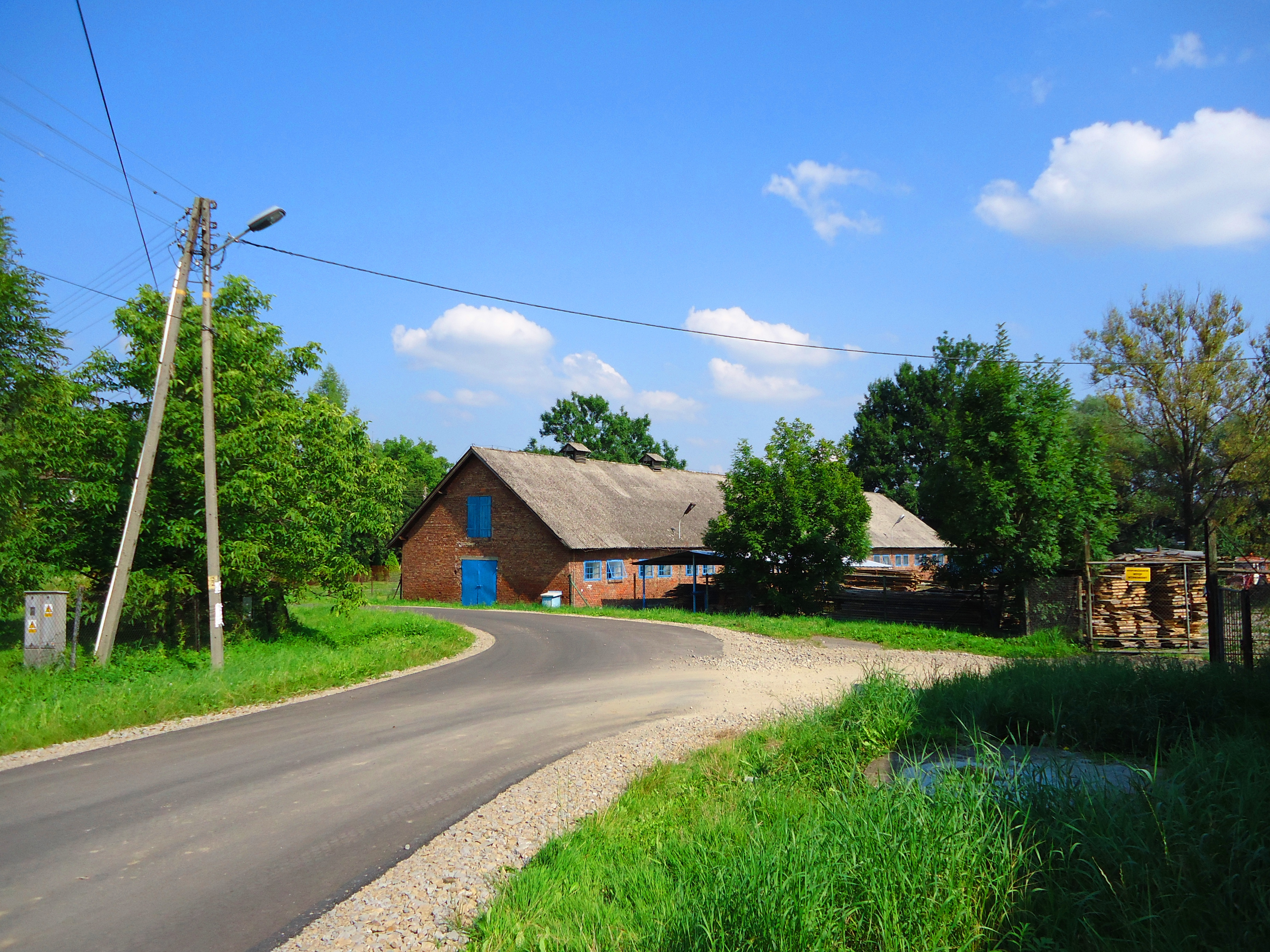 Cowshed in Zabłotce